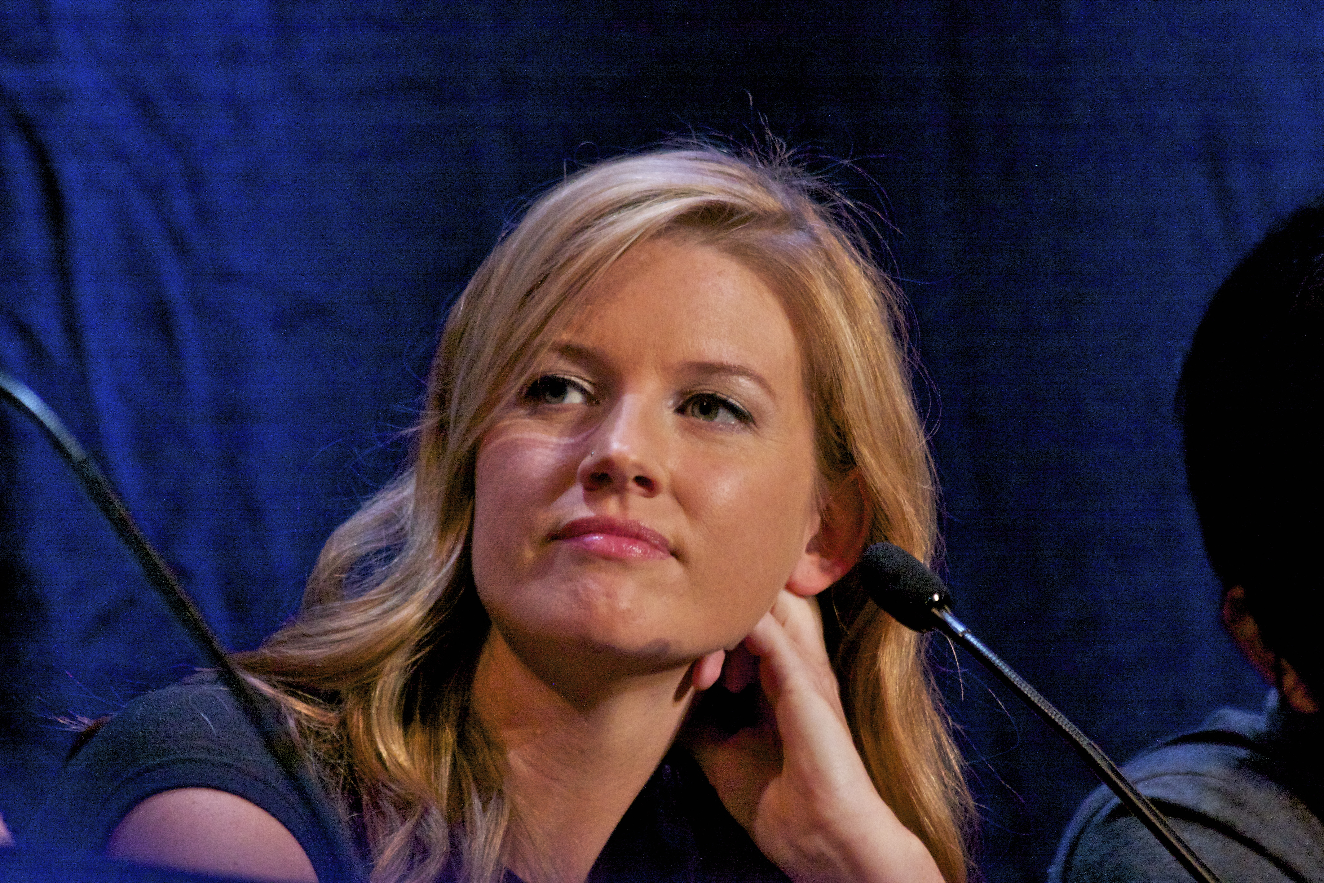 Ashley Jenkins